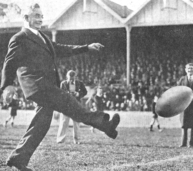 Michael Joseph Savage at a Rugby League match between New Zealand and Australia at Auckland in 1937.